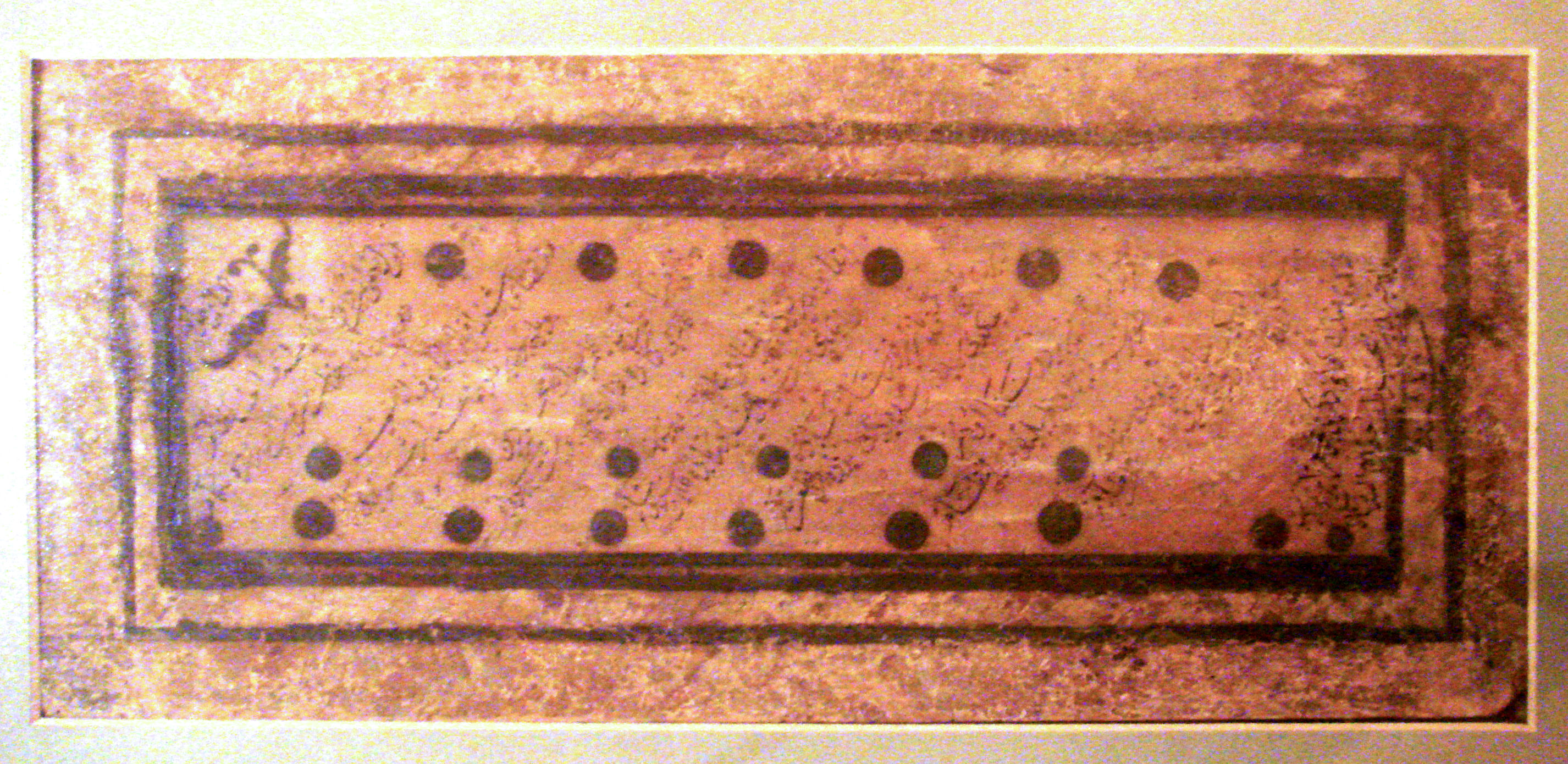 Letter_of_praise_from_Barbarossa_to_Suleyman_1541